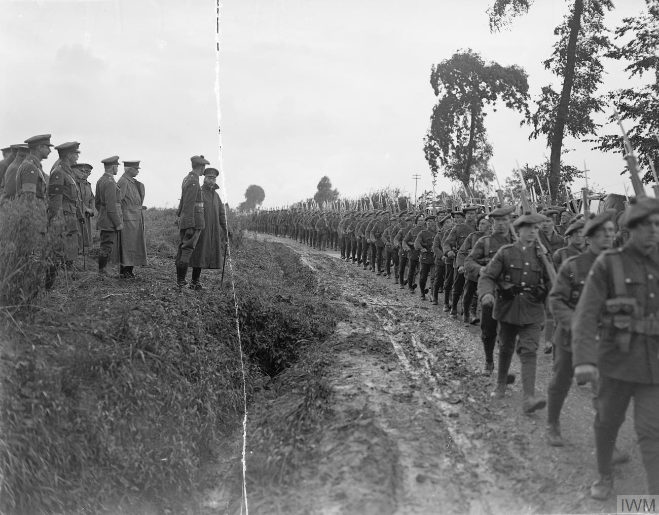 The Official Visits To the Western Front, 1914-1918 Troops of the 6th Battalion, King's Own Scottish Borderers (9th Division) marching past King George V near La Brearde, 6 August 1918. It is claimed in the divisional history that was the first occasion on which the unit wore its divisional sign.